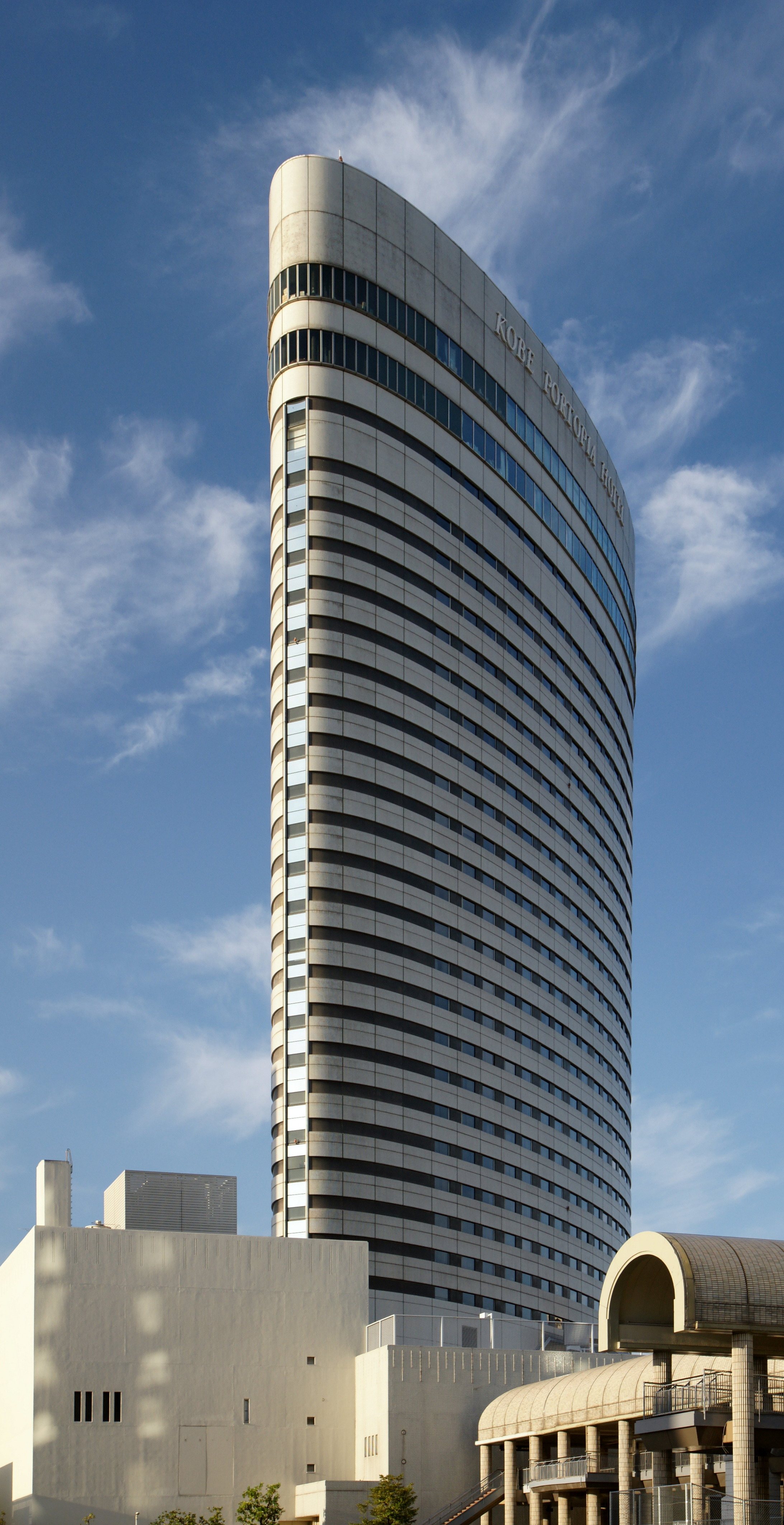 Portopia Hotel in Kobe, Hyogo prefecture, Japan.